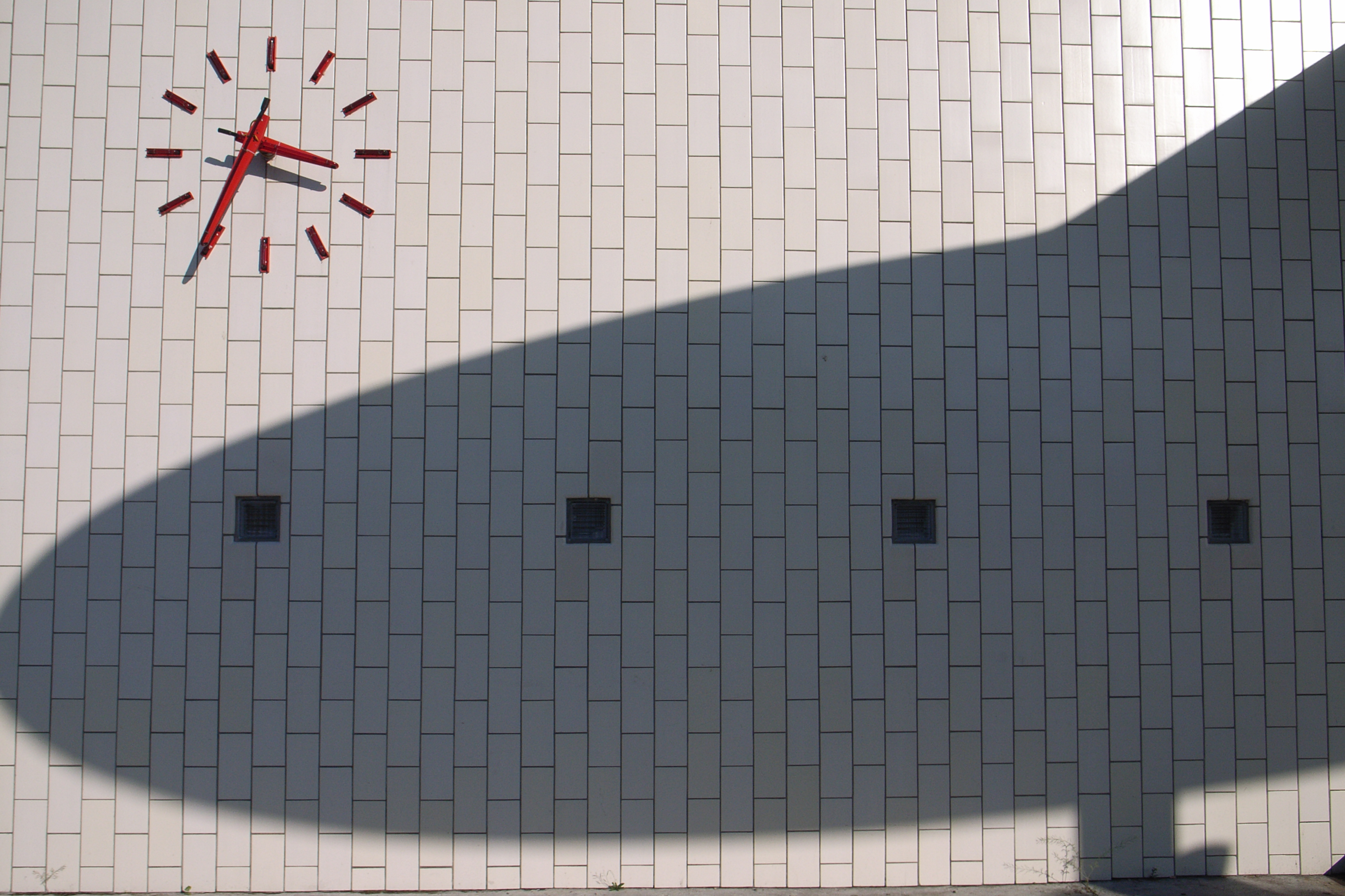 front fassade of petrol station by arne jacobsen